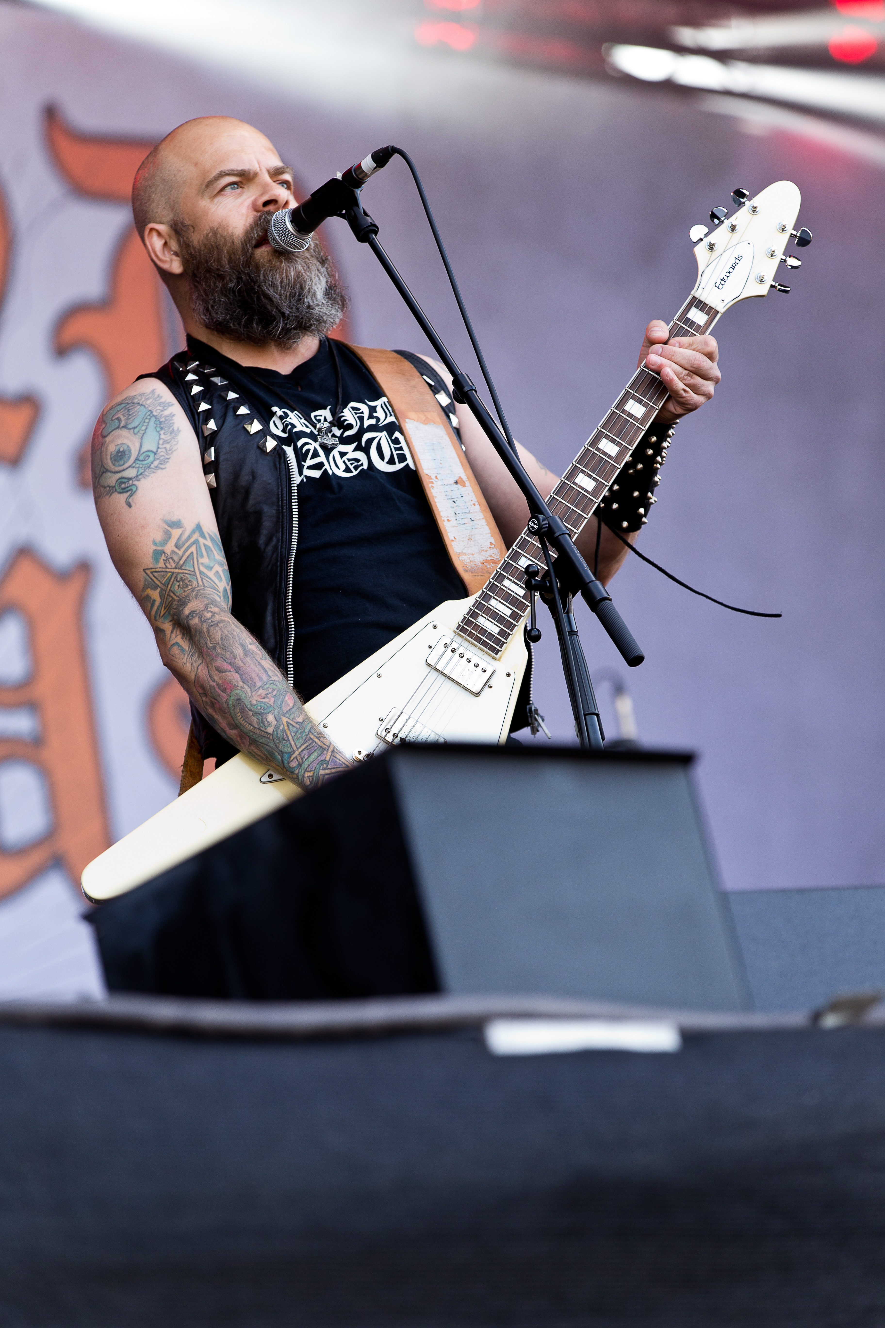 The Swedish stoner metal band Grand Magus at the Rockharz Open Air 2016 in Ballenstedt/Germany.